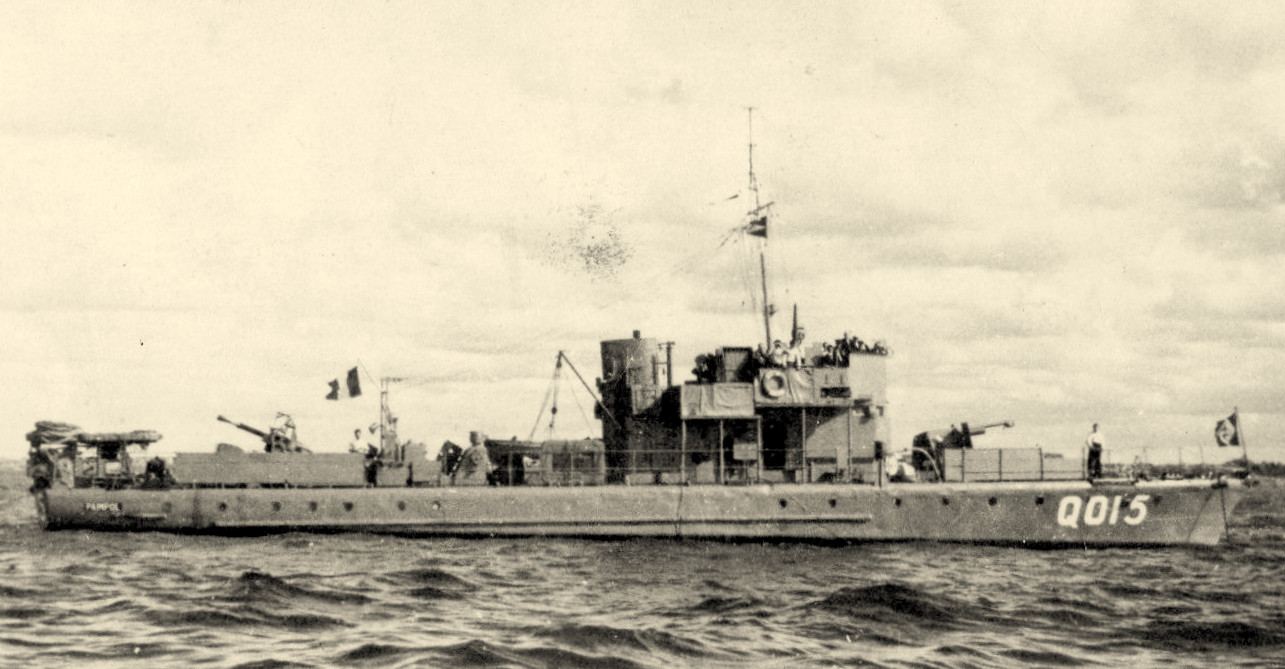 Chasseur 5-class submarine chaser Paimpol (QO 15). Chantier Worms built her at Le Trait on the River Seine in Normandy. She was launched in 1940 as CH 15. After the fall of France the Royal Navy seized her and renamed her QO 15. In 1942 she was transferred to the Free French Naval Forces, who named her Paimpol. She was scrapped in 1949.